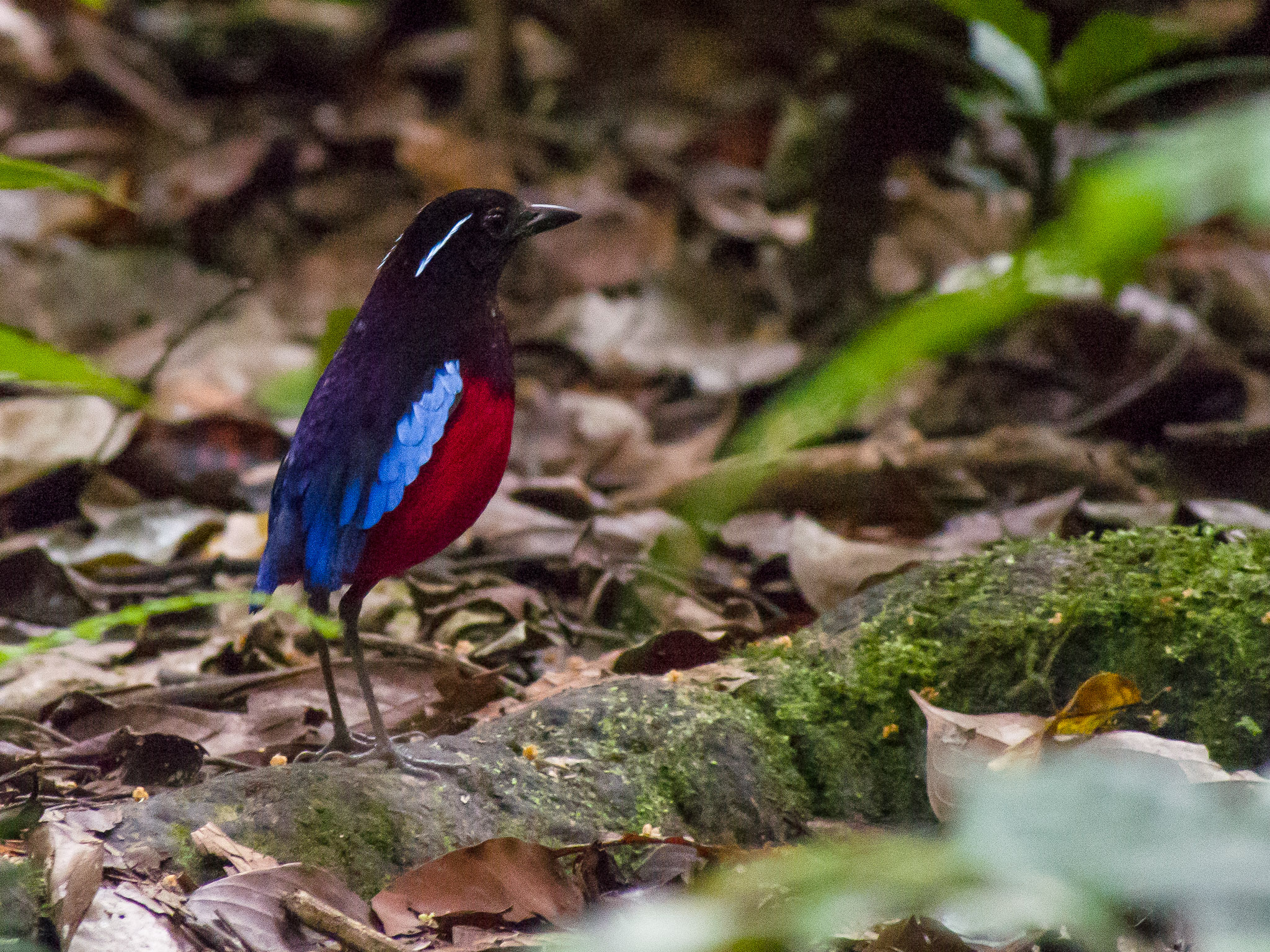 Black-crowned (or Black-and-crimson) pitta on the forest floor in Danum Valley Conservation Area, Sabah, Malaysia